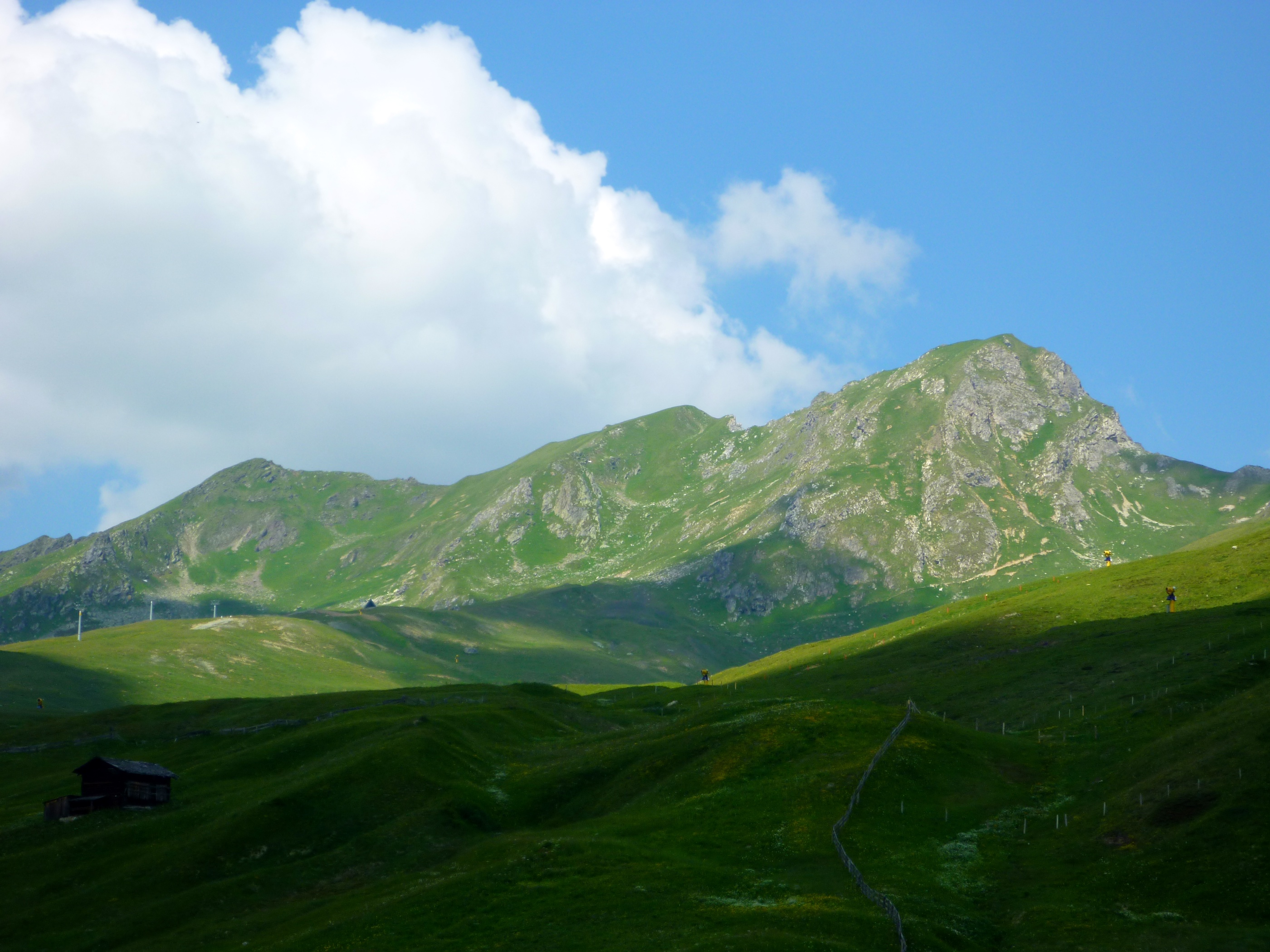 Plattenhorn seen from Inner-Arosa